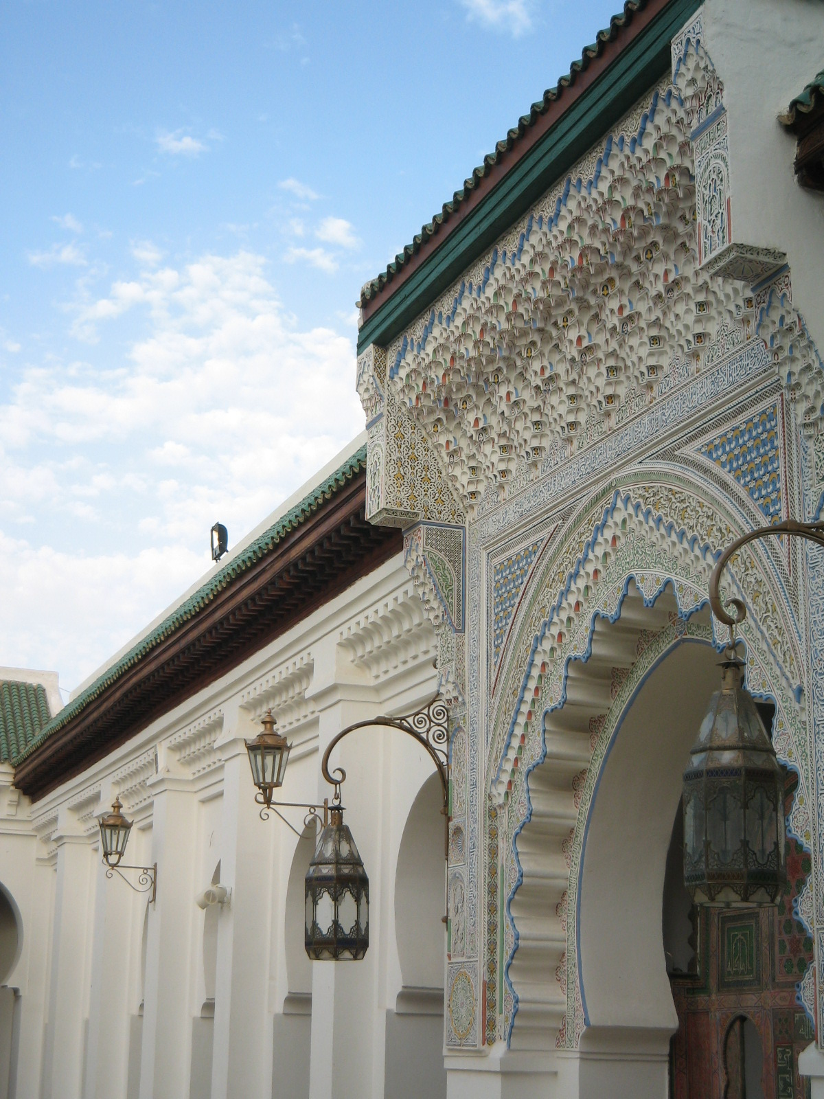 Al-Qarawiyyin University, Fes. Morocco